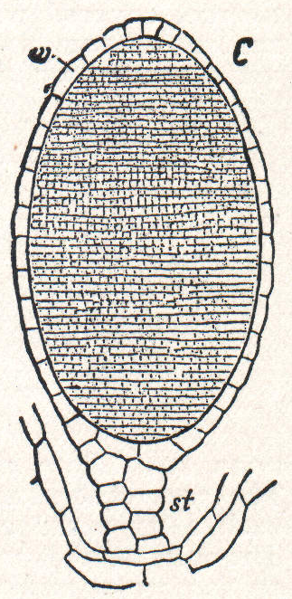 Section through Antheridium of Liverwort